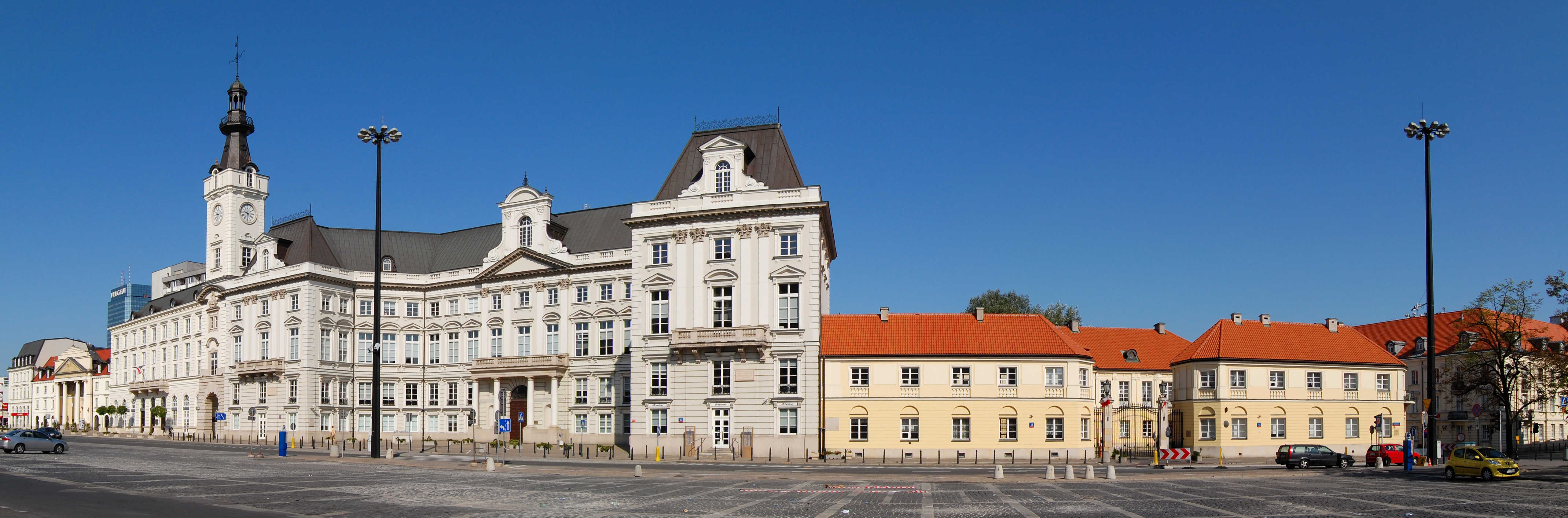 North face of Theatre Square in Warsaw, Poland.